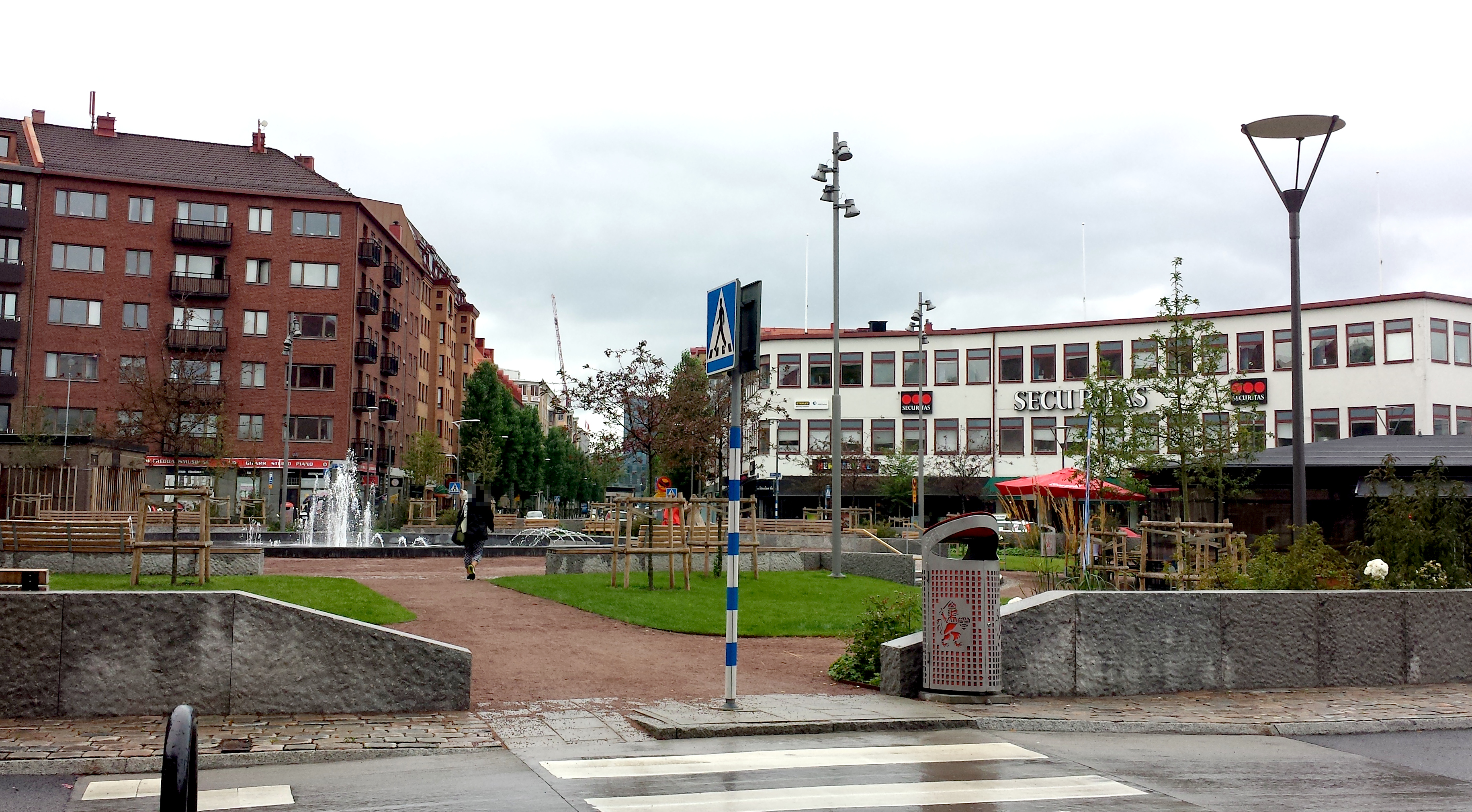 Odinsplatsen in Gothenburg, Sweden. View to the west.